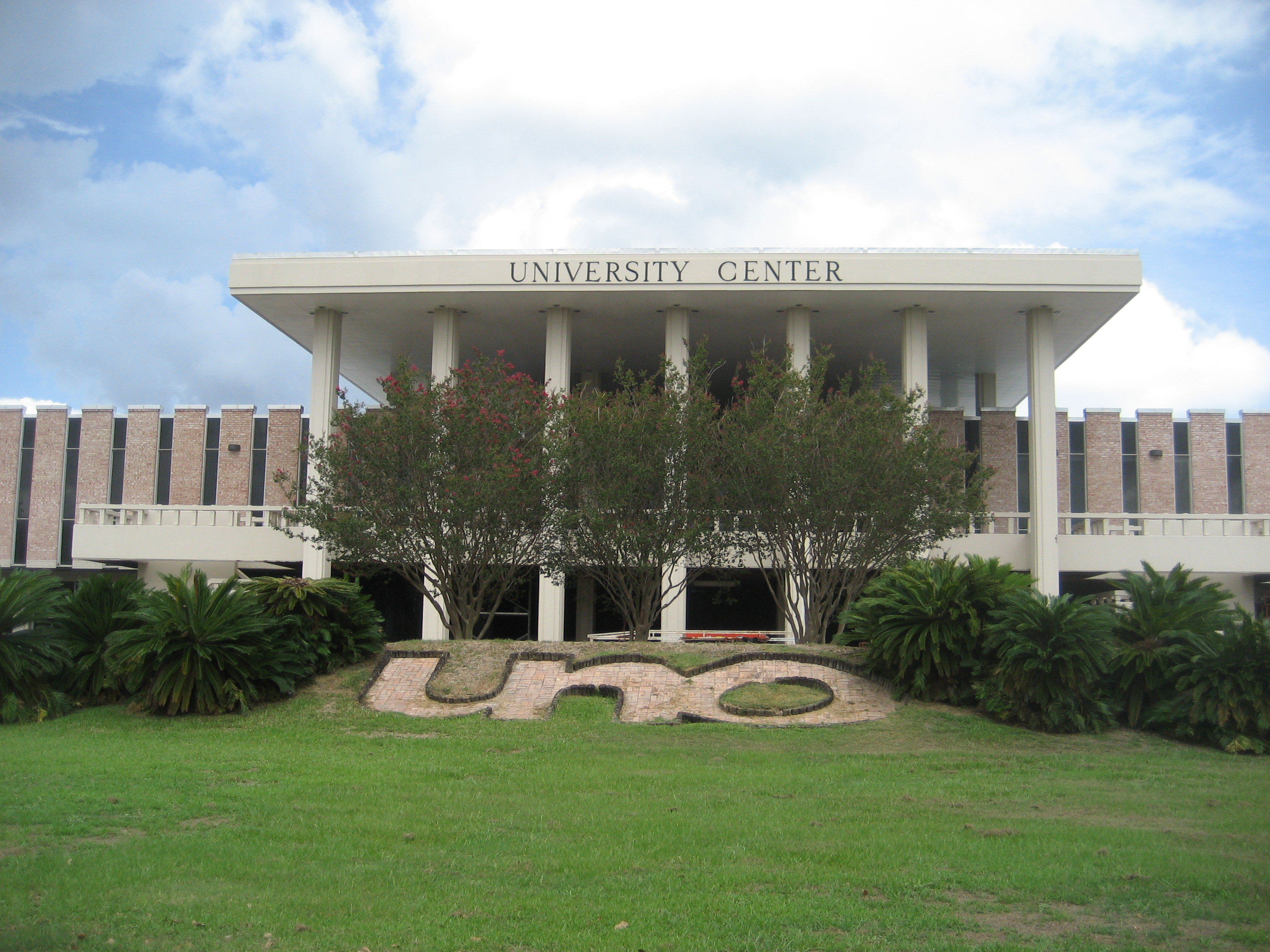 University of New Orleans, main campus. University Center building.